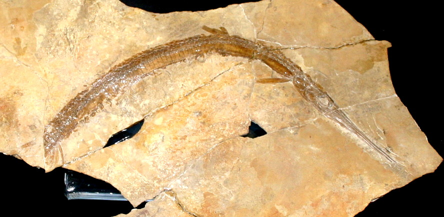 Belonostomus crassirostris.